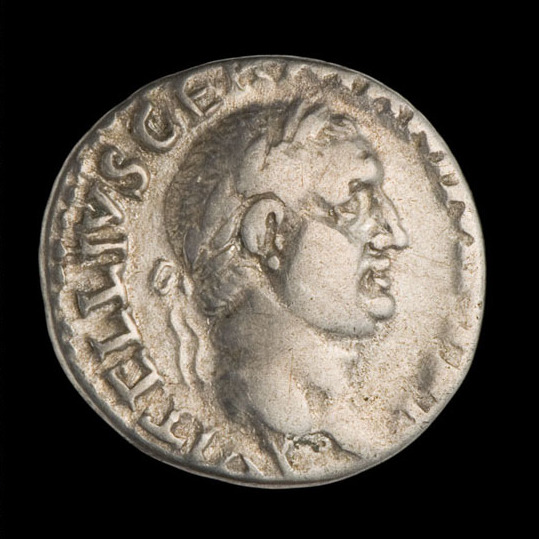 Vitellius (AD 69), part of the Llanvaches Roman coin hoard